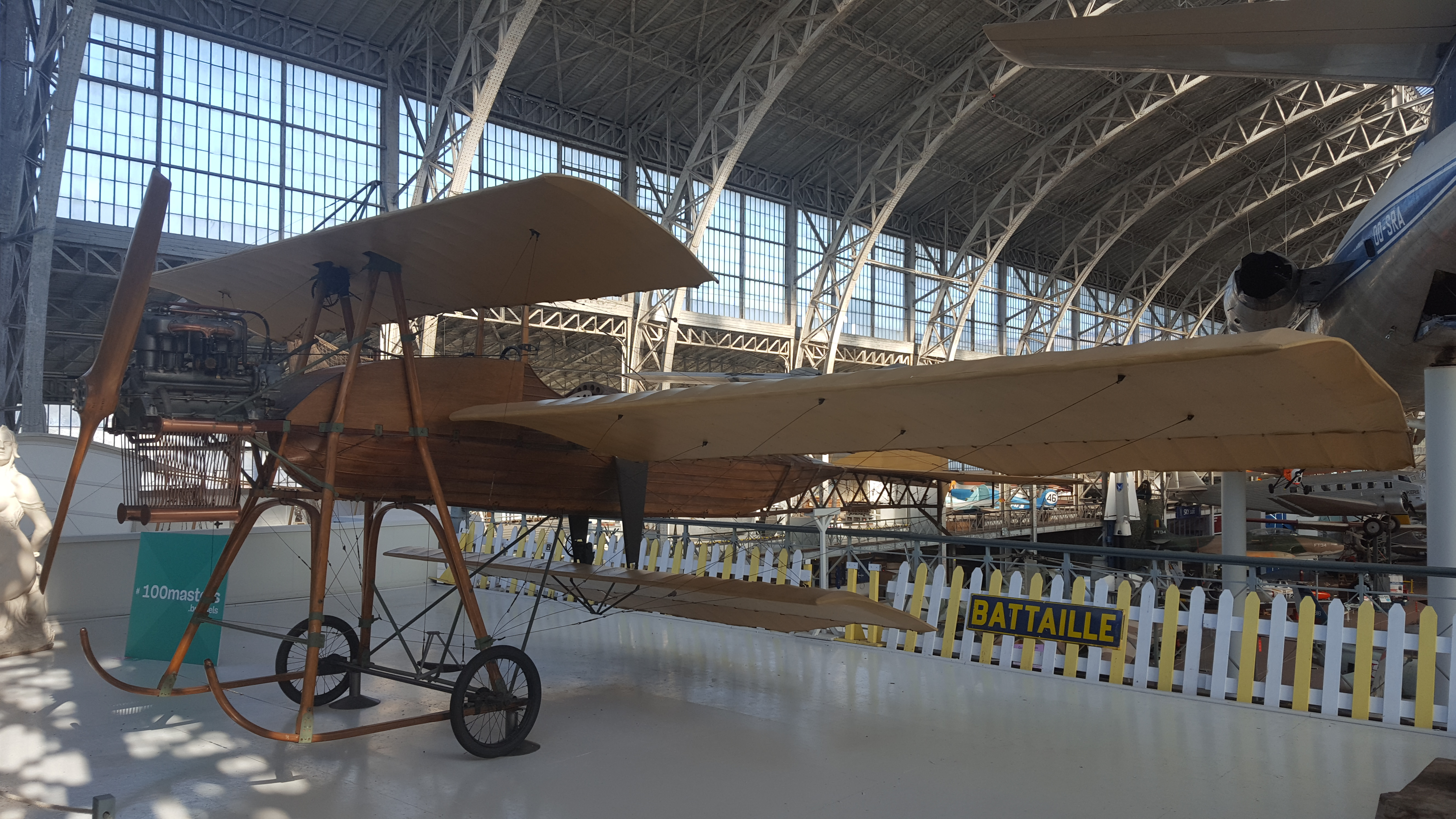 Triplan Battaille in the Royal Museum of the Armed Forces and of Military History during Wiki Loves Art, Brussels, Belgium